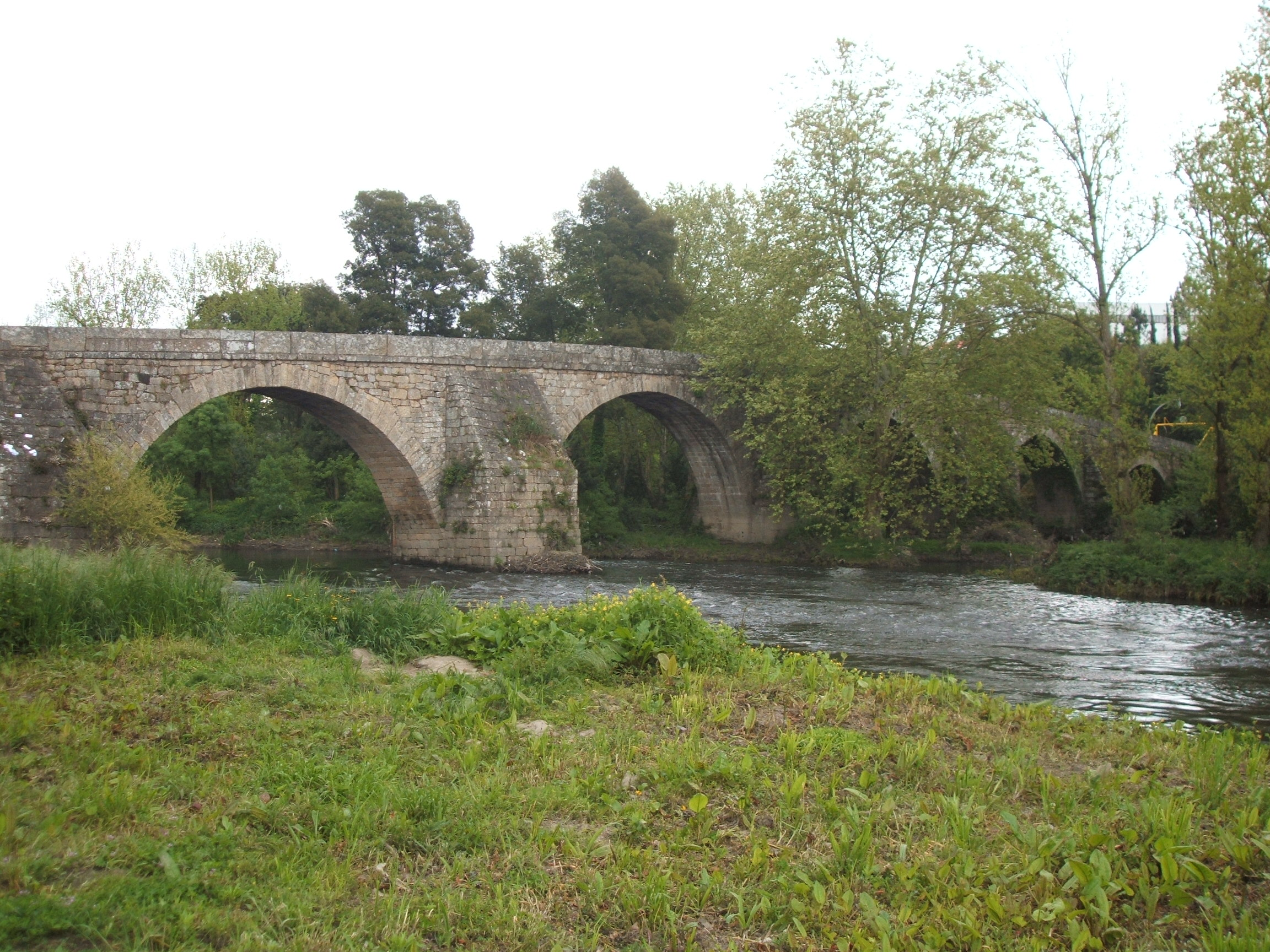 Lagoncinha bridge at Lousado (Vila Nova de Famalicão), Portugal